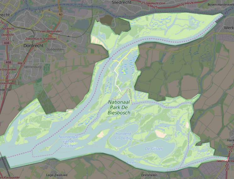 Map of Dutch National Park De Biesbosch. The background map is taken from . The boundary was drawn by me using landmarks in the OSM map that the boundary follows (water, roads etc).